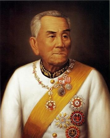 Inthawichayanon, 7th King Ruler of Chiang Mai and chief of Chet Ton Dynasty. He is father of Dara Rasmi, Princess consort to King Chulalongkorn, Rama V of Siam.